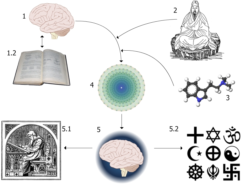 Diagram of a Religious experience